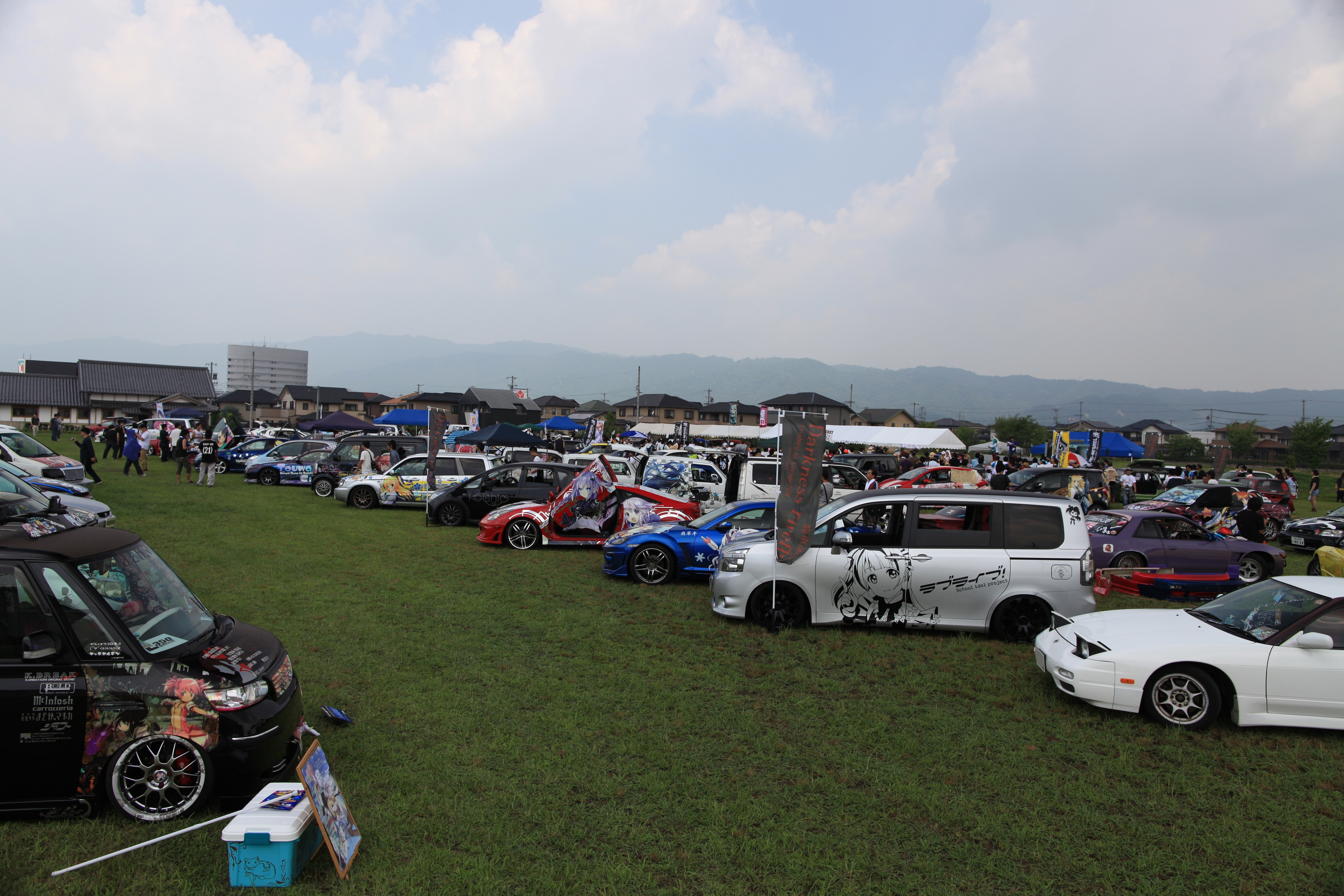 Moesha Meeting in Iga